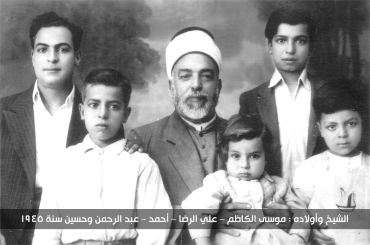 Zine_El_Abidine_Ben_Hasine_Ettunsi_with_his_children